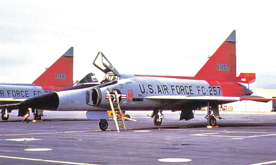 317th Fighter-Interceptor Squadron Convair F-102A-70-CO Delta Dagger 56-1257, 1965. Aircraft was retired to MASDC as FJ0367 Mar 16, 1975. Converted to QF-102A, later to PQM-102B and later expended as an aerial target during the 1980s at Holloman AFB, New Mexico